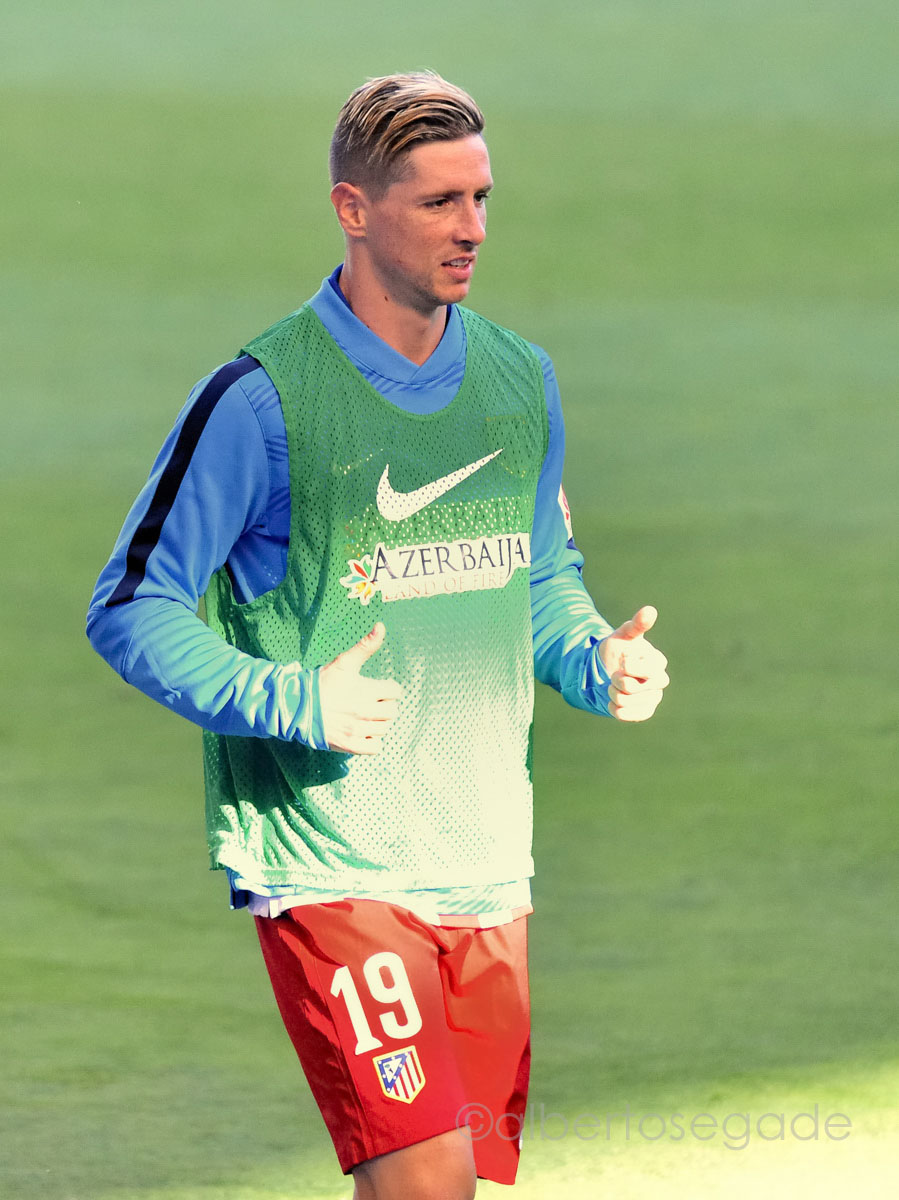 Fernando Torres warming-up for Atletico Madrid in a match against Deportivo La Coruna